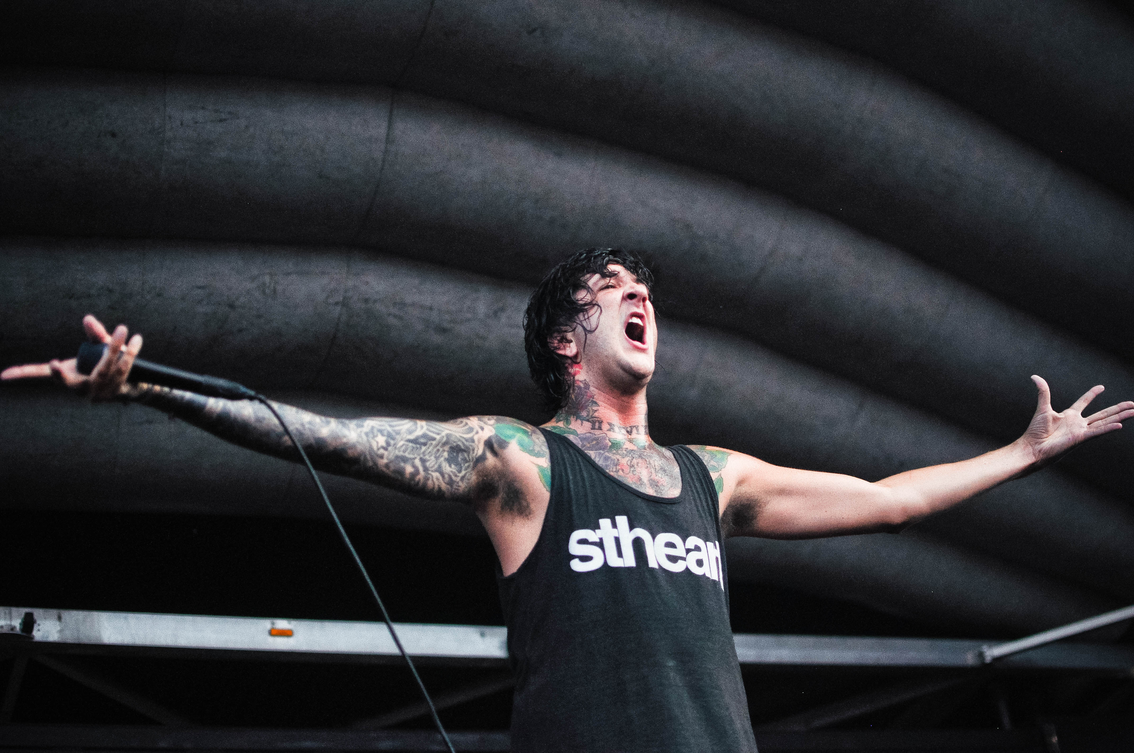 Of Mice & Men singer Austin Carlile live in concert in 2011